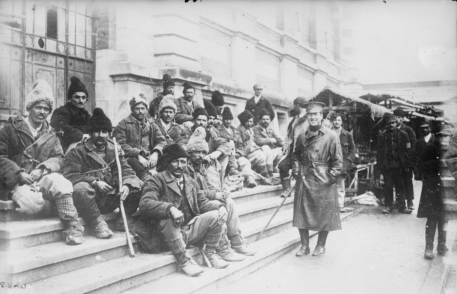 A group of demobilized Roumanian soldiers, veterans of their country's greatest battle-Marasesti, where seven divisions whipped General Mackenson's army. Seated on the steps of the American Red Cross building in Bucharest. In front of them stands Captain Claude E. Marble of Oneida, N.Y. Red Cross artificial leg expert who has literally put hundreds of crippled Roumanians "back on their feet again" with the product of the Red Cross artificial limb factory at Bucharest